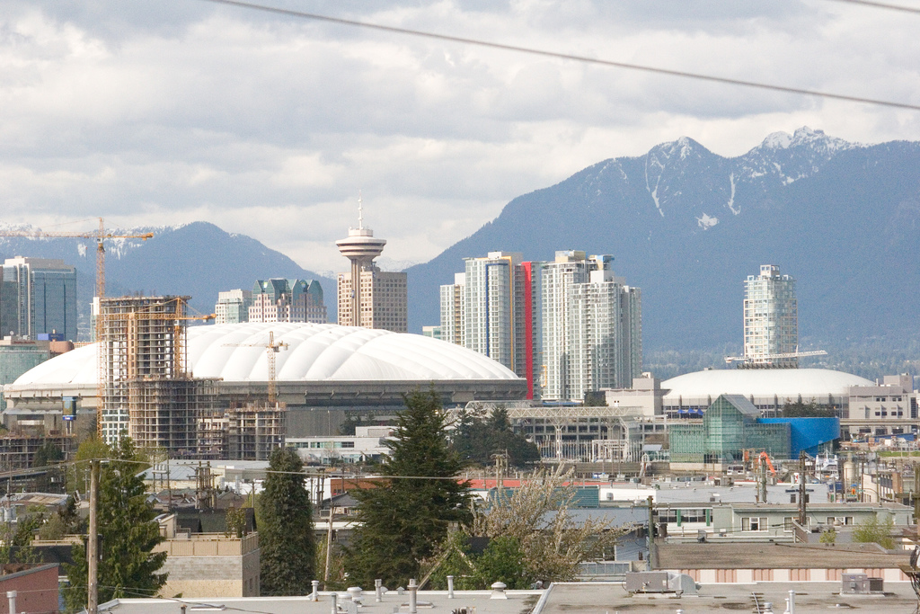 General Motors Place in front of Vancouver Skyline